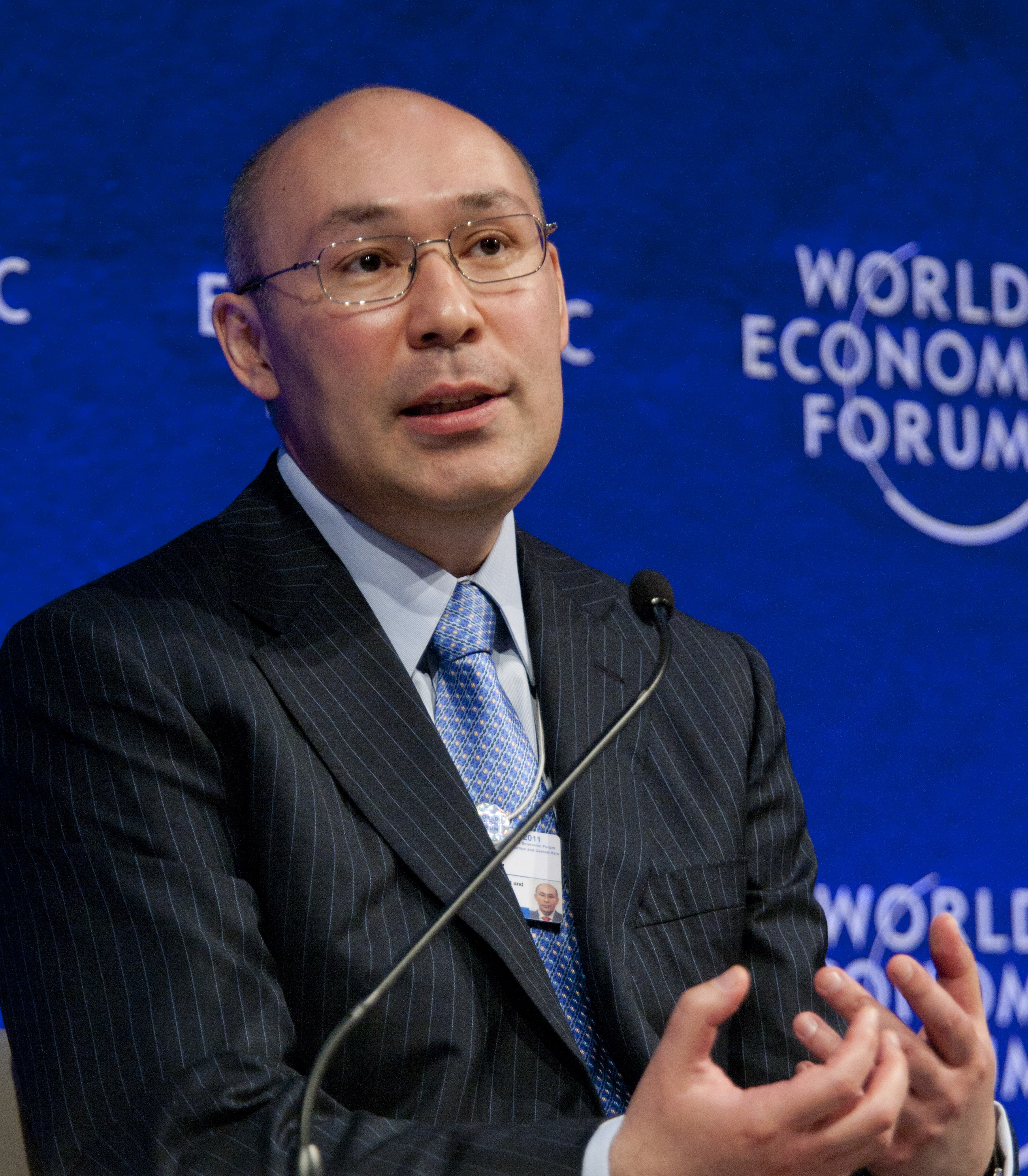 VIENNA/AUSTRIA, 8JUN11 - Kairat Kelimbetov - Minister of Economic Development and Trade of Kazakhstan, at the World Economic Forum on Europe and Central Asia held in Vienna, Austria, June 8, 2011. Copyright World Economic Forum/Photo by Benedikt Loebell